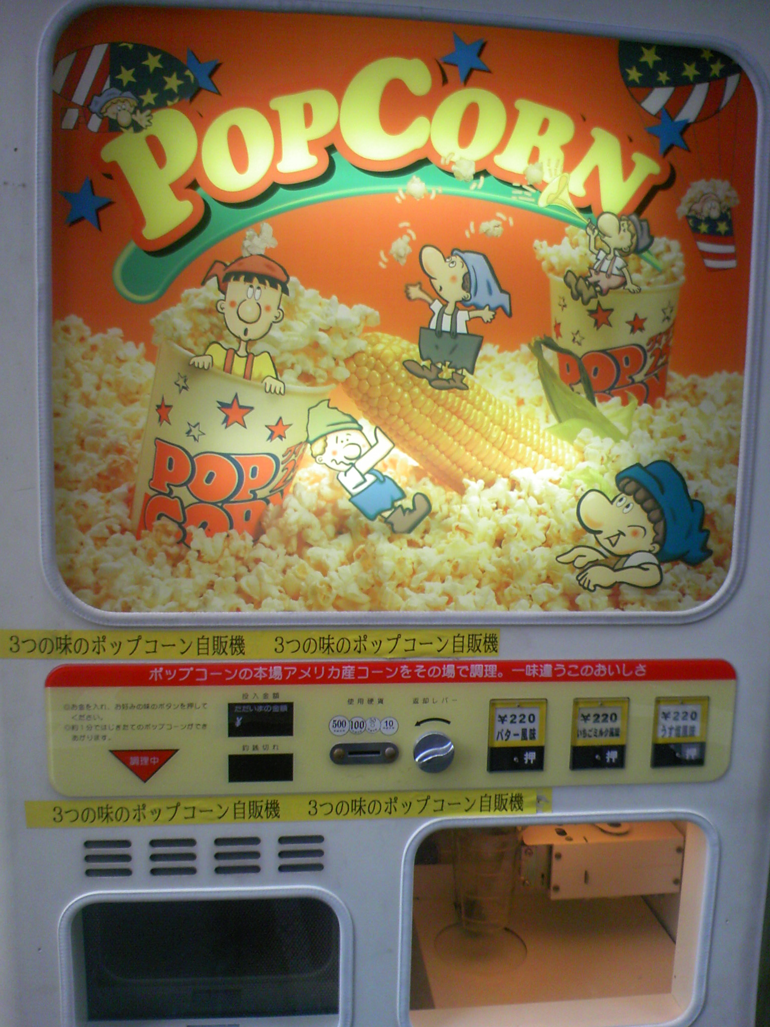 This was relatively close to Akihabara; it's also the only time I've seen a popcorn vending machine in Japan. (The flags make it American, I guess.)